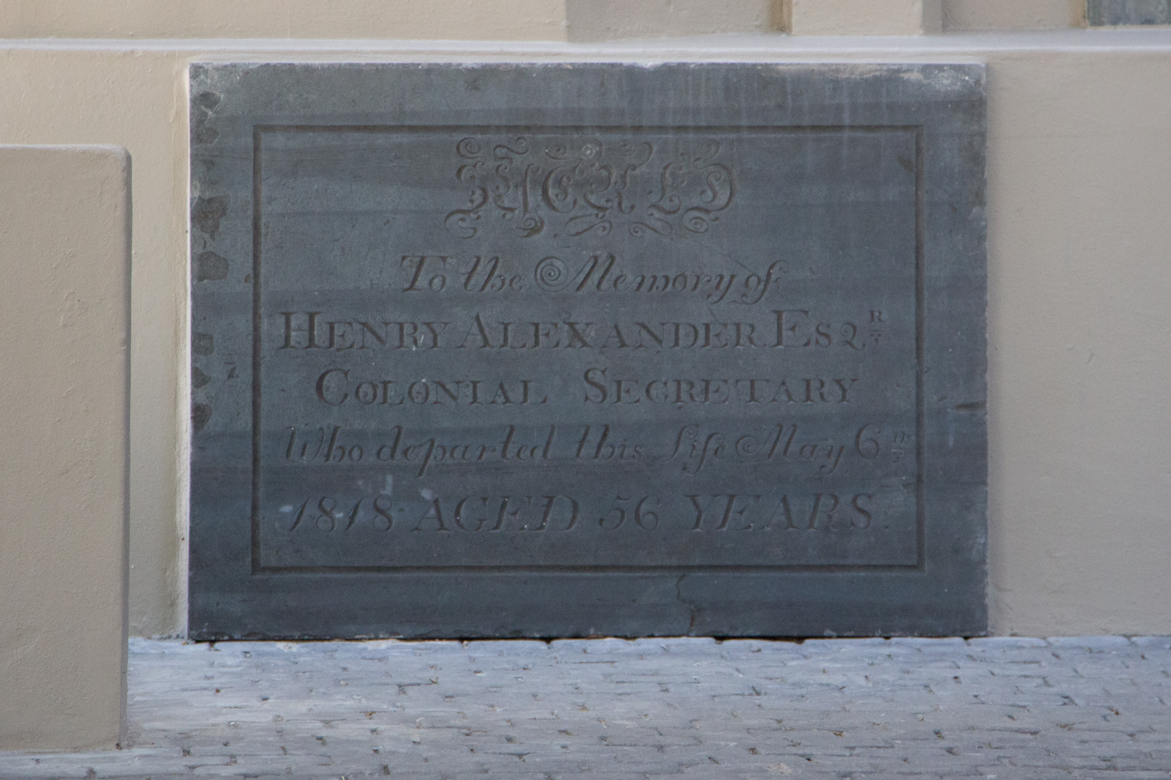 Gravestone for Irish politician and Cape Colonial Secretary Henry Alexander (1763-1818), Groote Kerk, Cape Town, South Africa